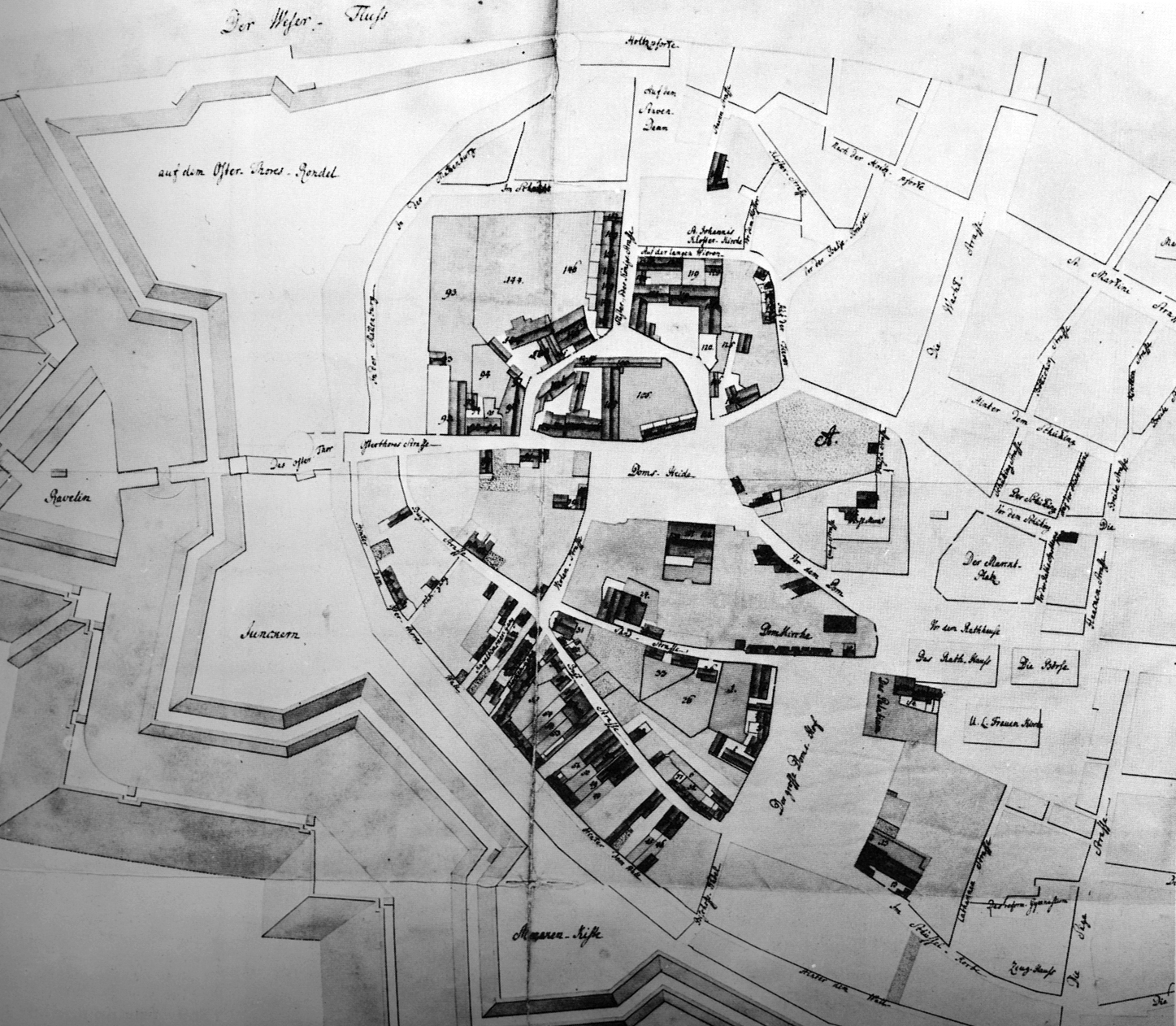 Grundriß der Altstadt Bremen. Map by Johann Christian Dankwerth from the year 1750, showing the posessions of the state of Hanover in the city of Bremen (the Dombezirk, the “cathedral district“).